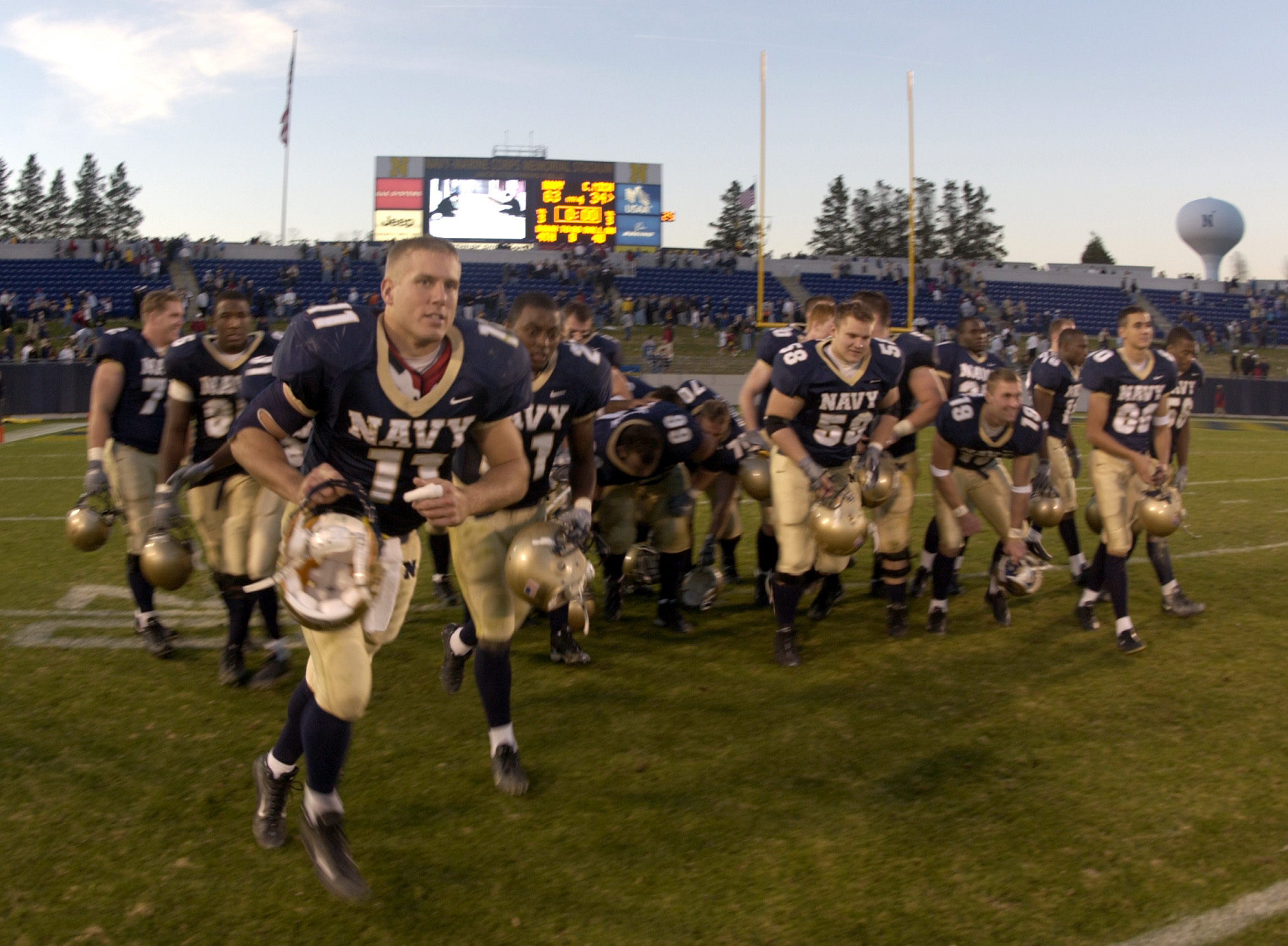 Annapolis, Md. (Nov. 22, 2003) – Led by Navy quarterback Craig Candeto 22 seniors leave the gridiron at Jack Stephens field for the final time following the Midshipmen's win over the Chippewas 63-34 in Annapolis, Md. With its seventh Div. IA win, Navy (7-4) clinched a winning season and became bowl eligible. The Mids next meet Army Dec. 6 for the last game of the regular season. A victory over the Cadets would give Navy possession of the Commander-in-Chief’s trophy, currently held by Air Force. U.S. Navy photo by Photographer’s Mate 2nd Class Damon J. Moritz. (RELEASED)